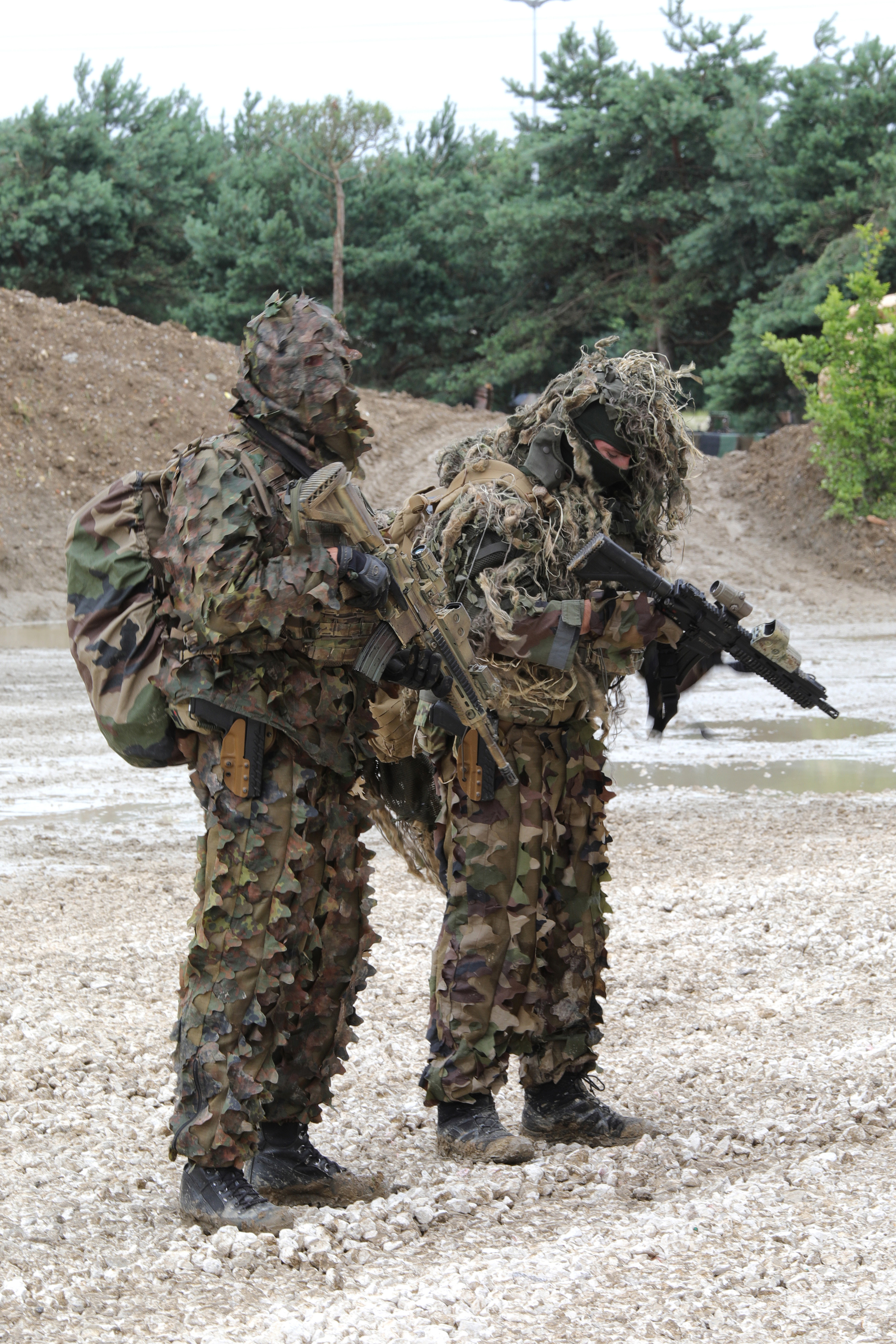 French army special forces team during a hostage rescue demo-5 June 2018